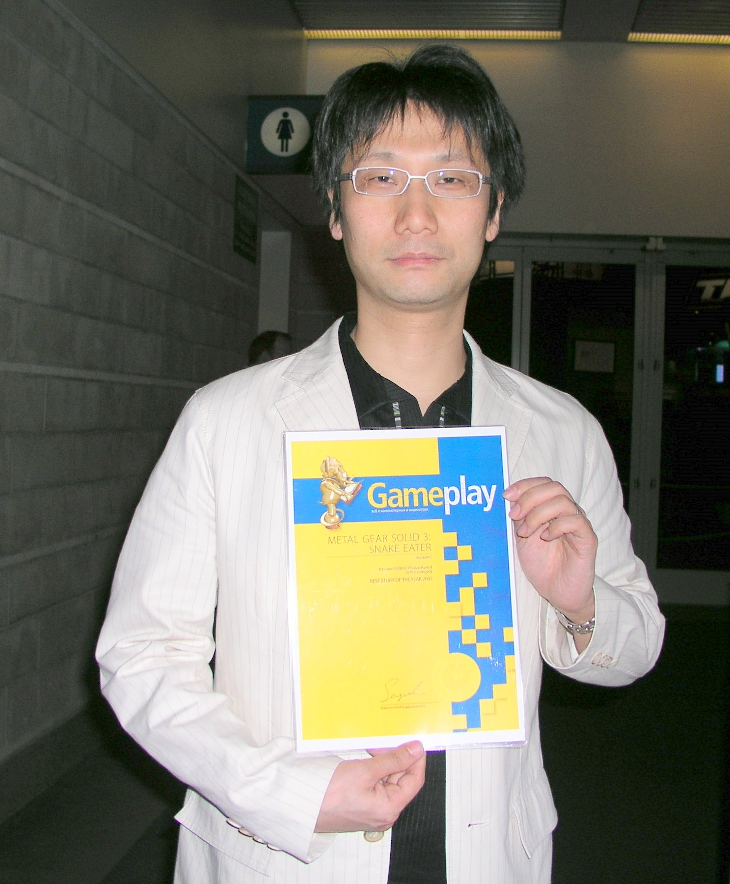 Hideo Kojima at E3 2006 with Gameplay (magazine) award for Best story of the year 2005.